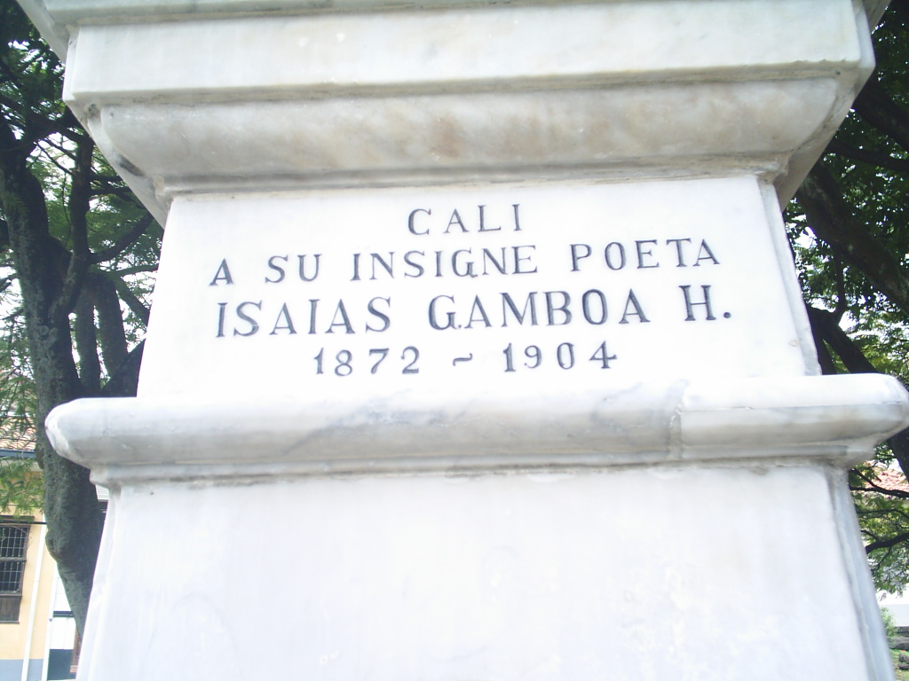 The legend in the Isaías Gamboa Bust